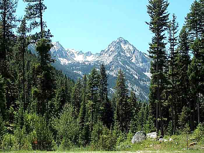 Trapper Peak of the Bitterroot Mountains — in the Bitterroot National Forest, western Montana.